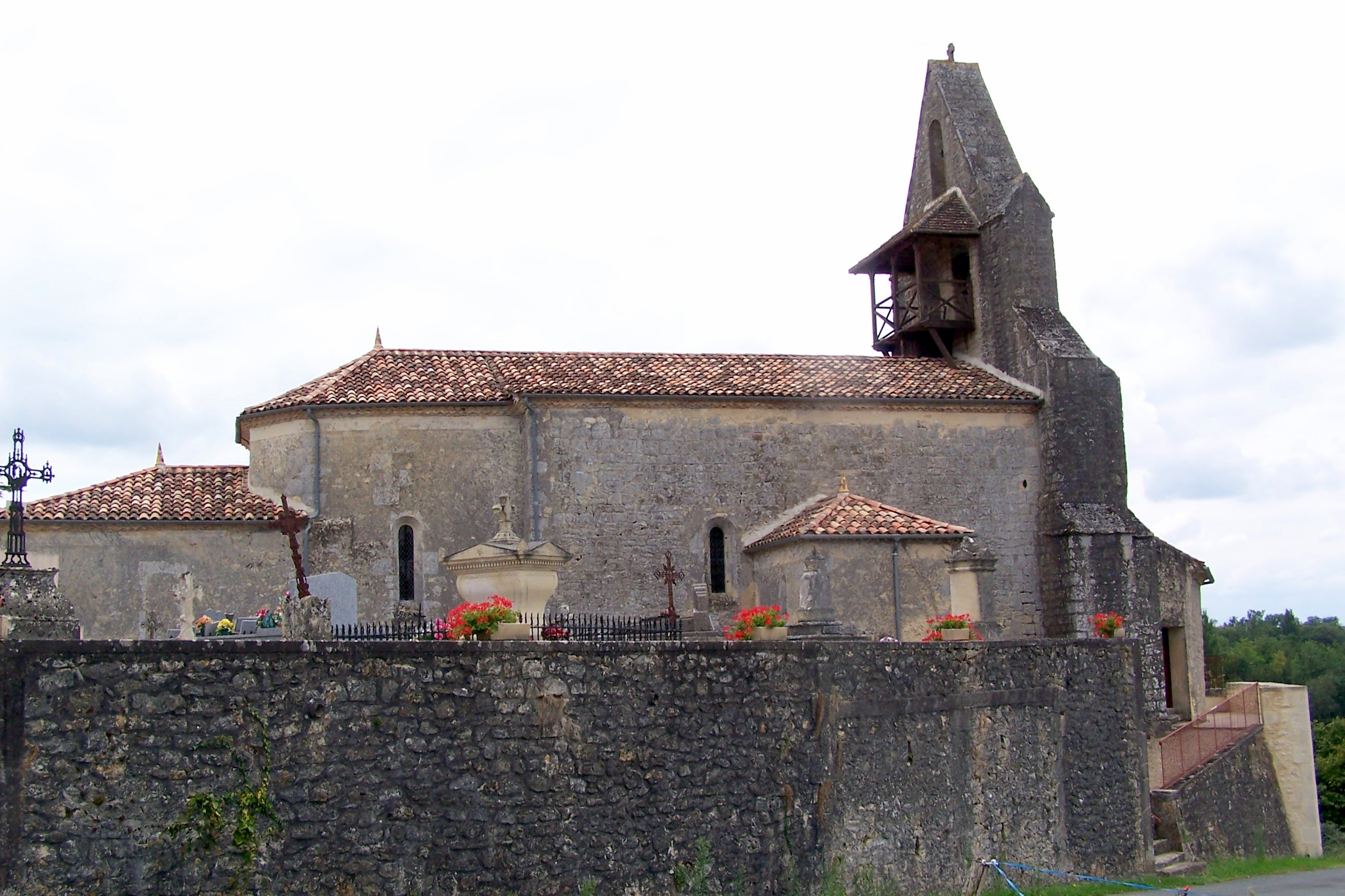 Church Notre-Dame of Landerrouet-sur-Ségur (Gironde, France)